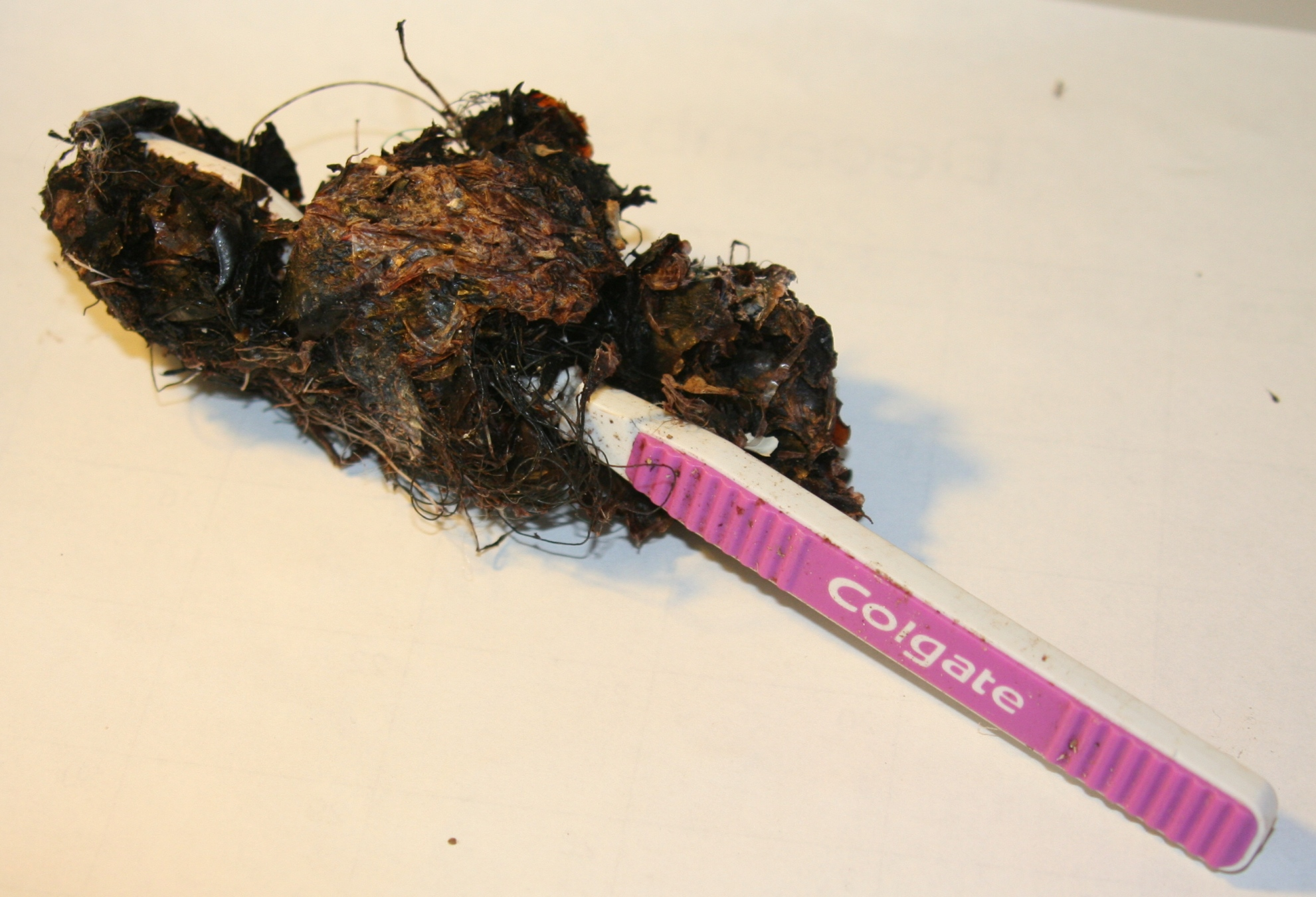 An albatross bolus – undigested matter from the diet such as squid beaks and fish scales. This bolus from a Hawaiian albatross (either a Black-footed Albatross or a Laysan Albatross) found on Tern Island, in the French Frigate Shoals, Northwestern Hawaiian Islands, has several ingested flotsam items, including monofilament fishing line from fishing nets and a discarded toothbrush. Ingestion of plastic flotsam is an increasing hazard for albatrosses.